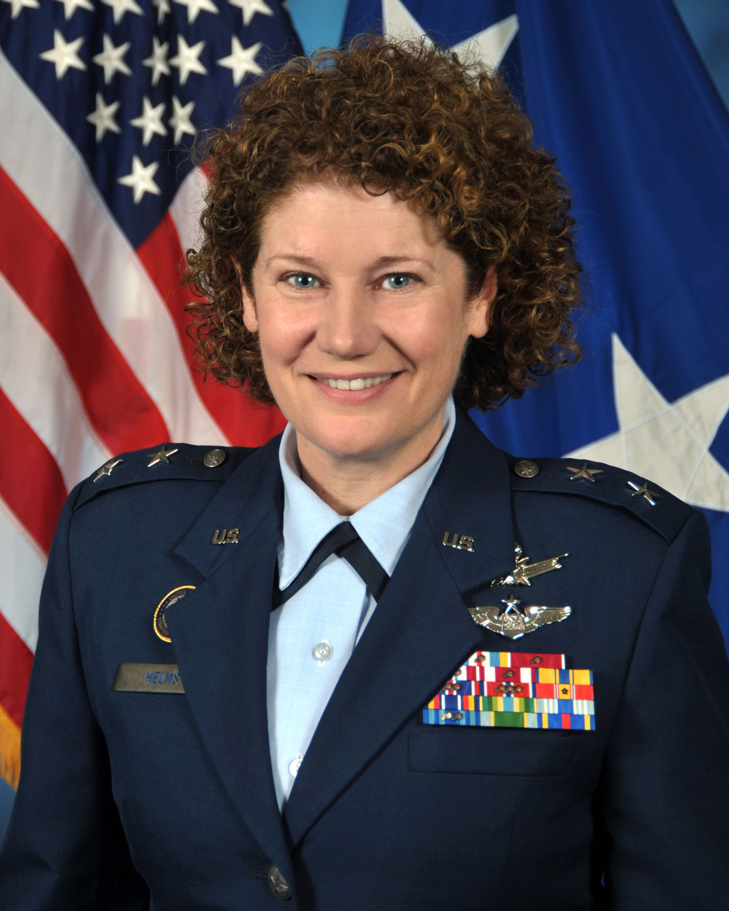 Susan Helms is a United States Air Force Major General and a former NASA astronaut. This image is the most recent published by the U.S. Air Force, following her promotion to Major General